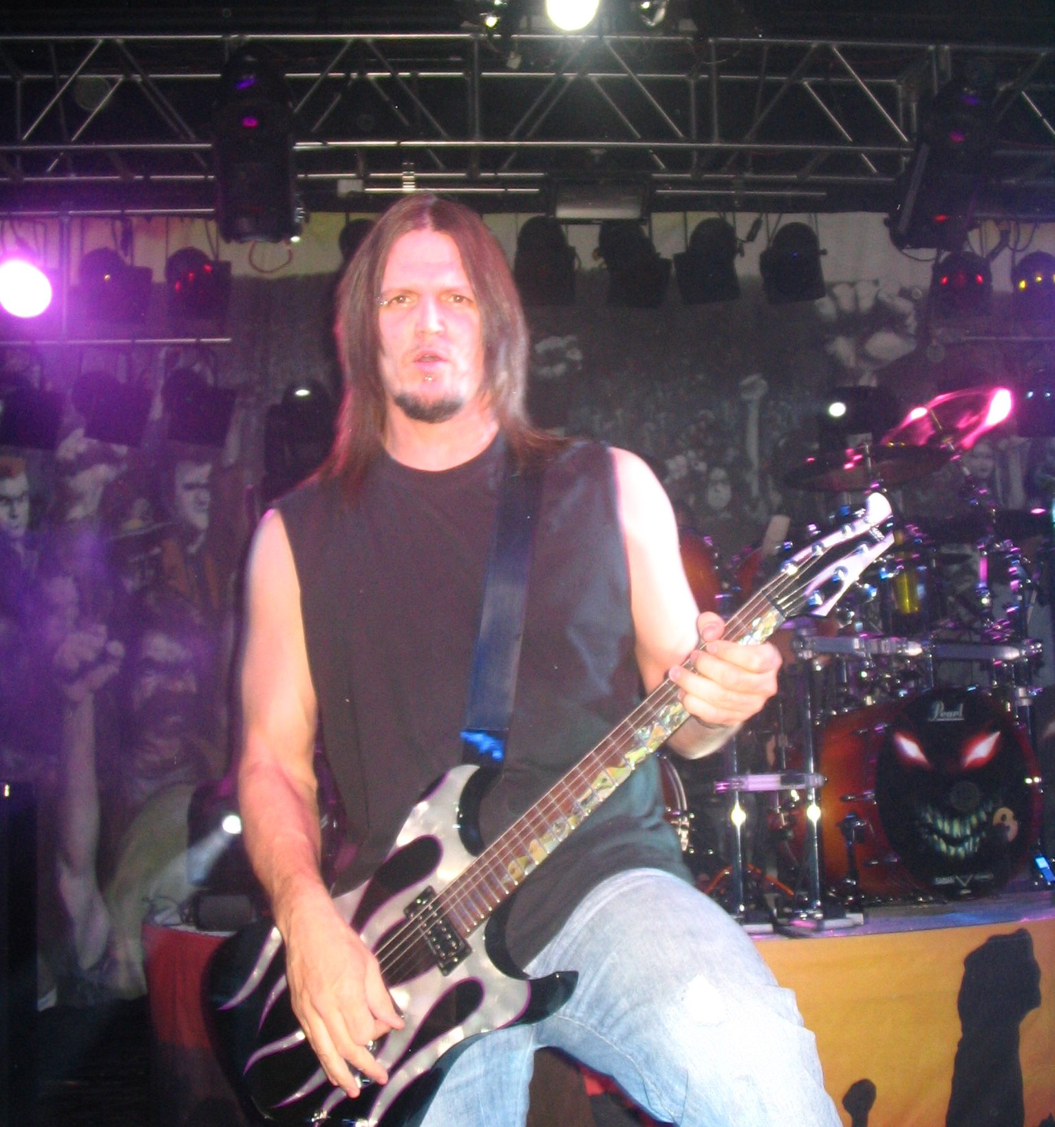 Picture of Dan Donegan, taken on December 8, 2005 at Starland ballroom.